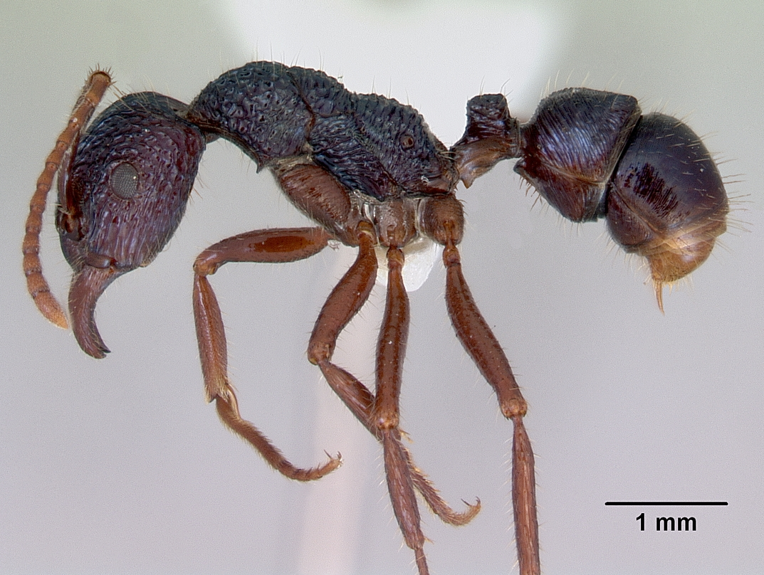 Profile view of ant Rhytidoponera chalybaea specimen casent0172343.